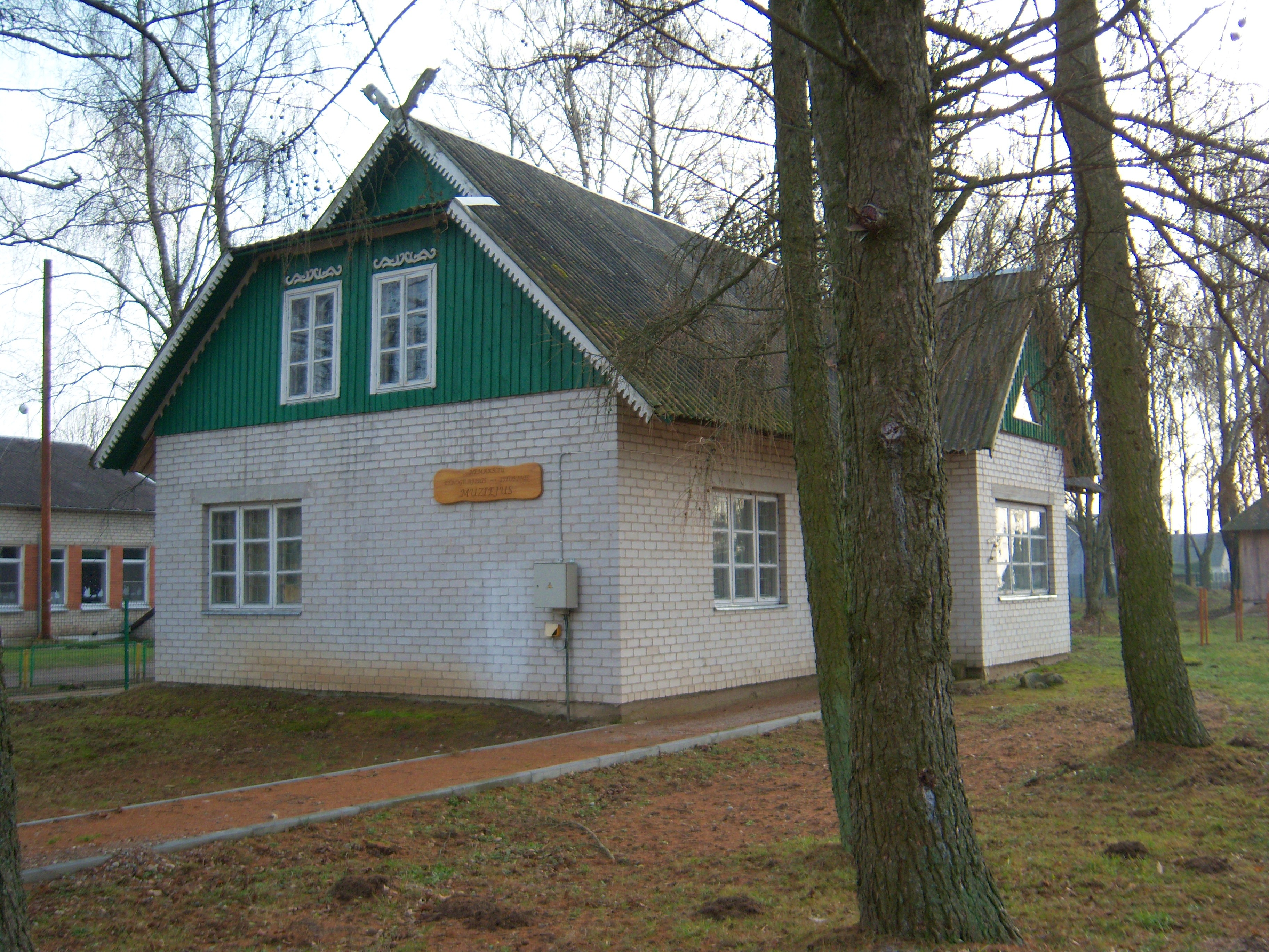 Museum, Nemakščiai, Raseiniai District, Lithuania